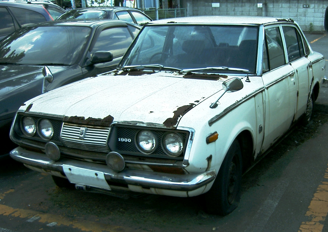 Toyota_Toyopet_Mark_II_1900 - 1970 type